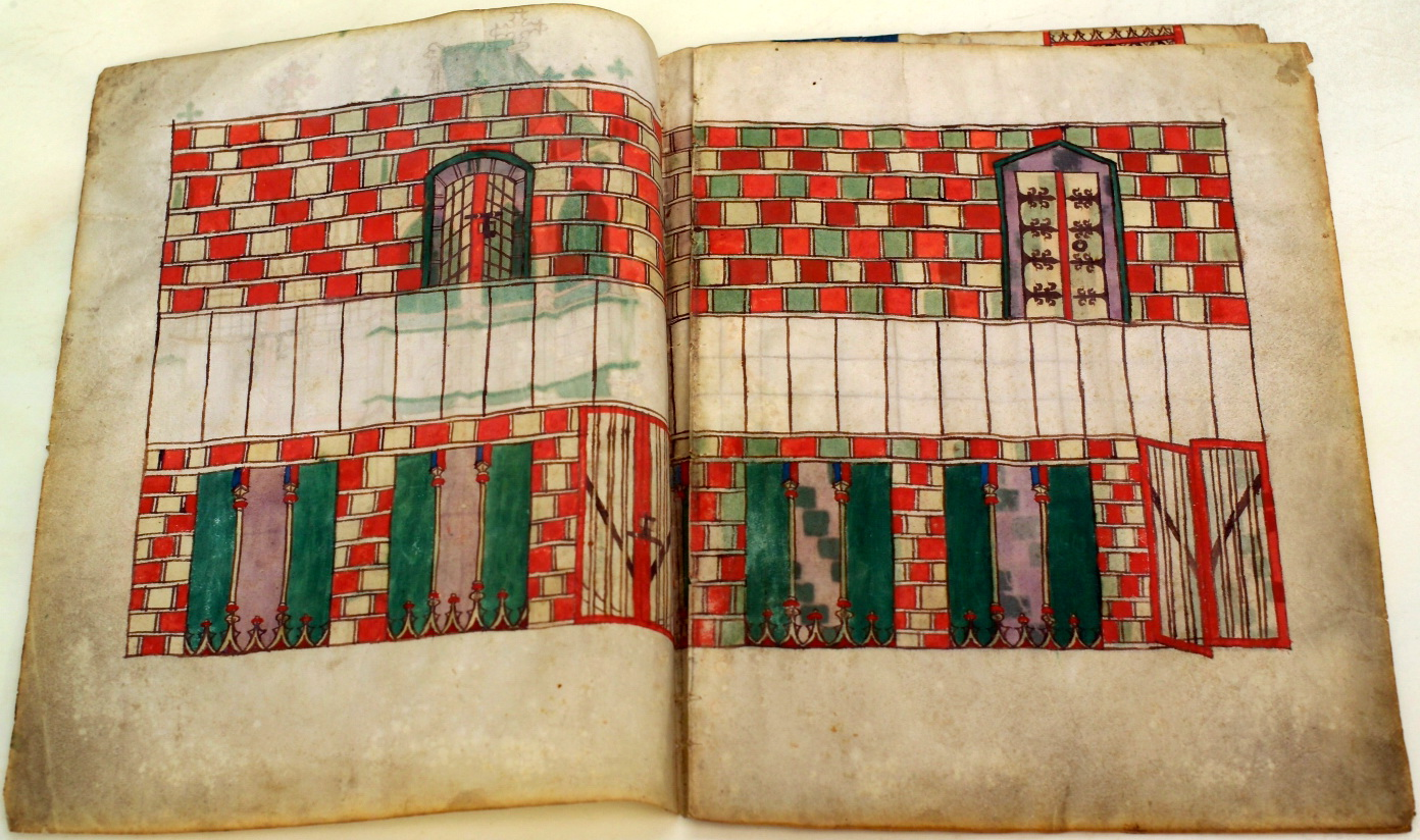 Architectural drawing (blueprint?) of the cloisters of the Basilica of Saint Servatius, Maastricht, the Netherlands. Ink on parchment, c. 1460-75. Drawings and prints collection GAM (City Archives of Maastricht).